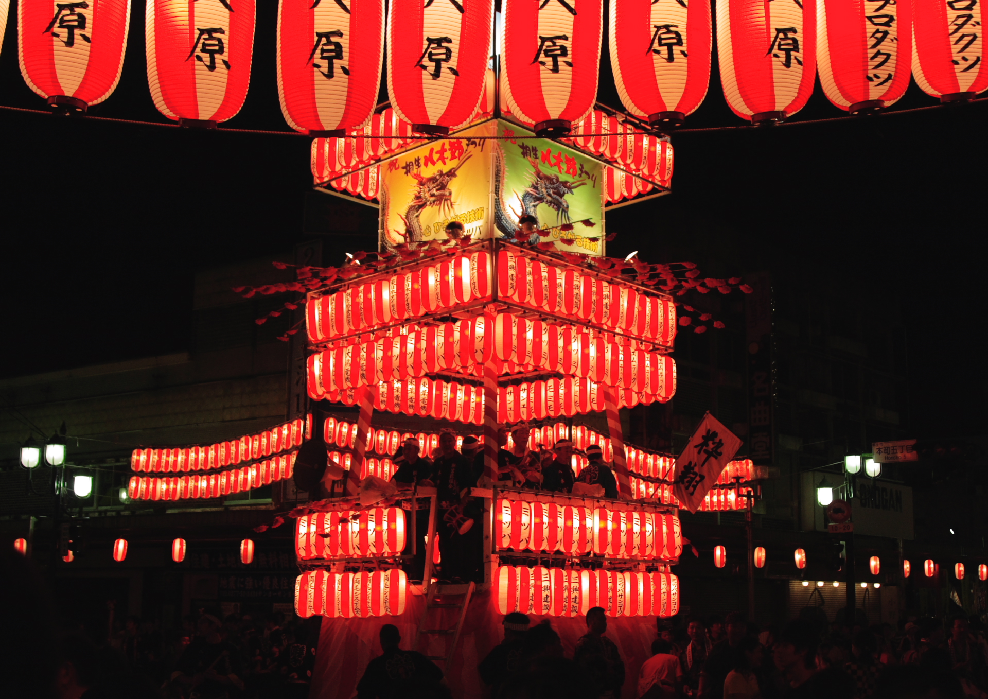 桐生八木節まつり, Kiryu Honcho Street in the Festival